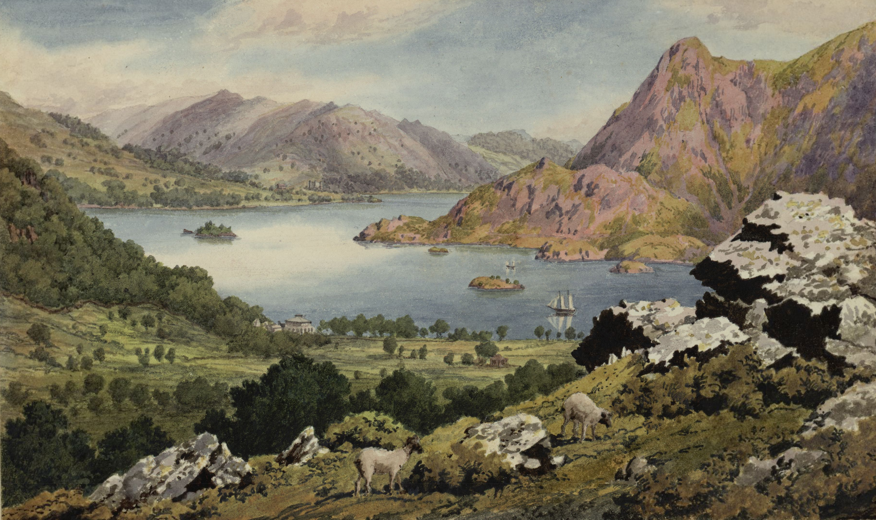 The English Lakes. Selected views from a sketchbook (36 drawings) : mixed media, including watercolour and pencil ; 27 x 40 cm.